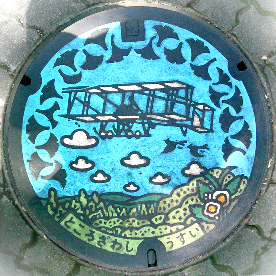 A type of manhole covers in Tokorozawa city, Japan, colored and illustrated. On the center is a 1910's FarmanⅢ, French biplane also known as "Henri Farman biplane", or "box-kite" , which was officially the first powered aircraft in Japan.